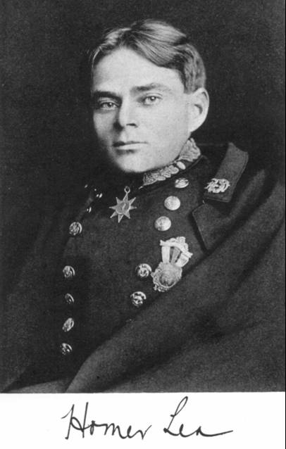 Photograph of Homer Lea (1876-1912), an American adventurer and writer who served as an adviser to Dr. Sun Yat-sen